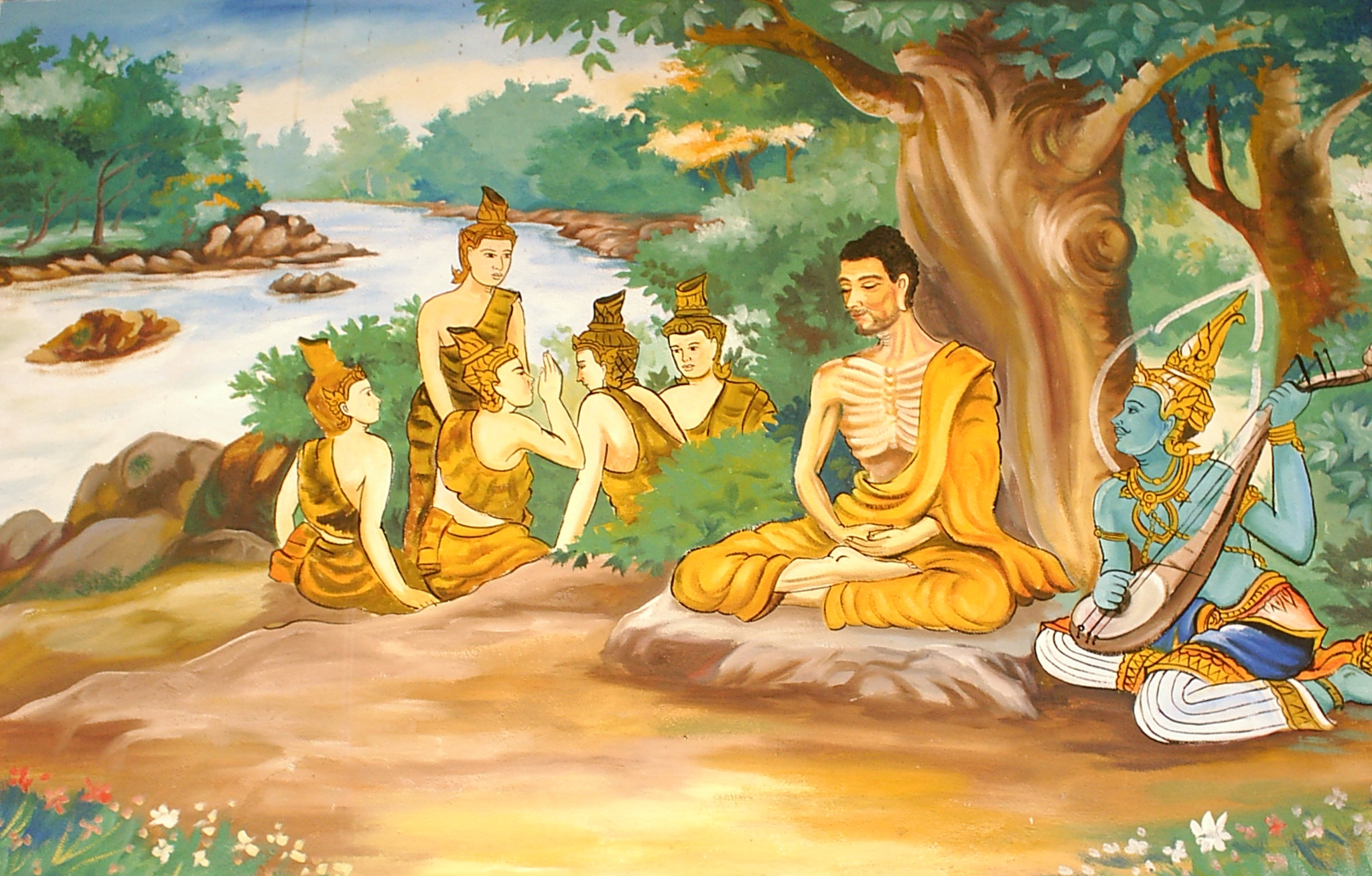 picture of a wallpainting in a Laotian temple, depicting the Bodhisattva Gautama (Buddha-to-be) undertaking extreme ascetic practices before his enlightenment. A god is overseeing his striving, and providing some spiritual protection. The five monks in the background are his future 'five first disciples', after Buddha attained Full Enlightenment.